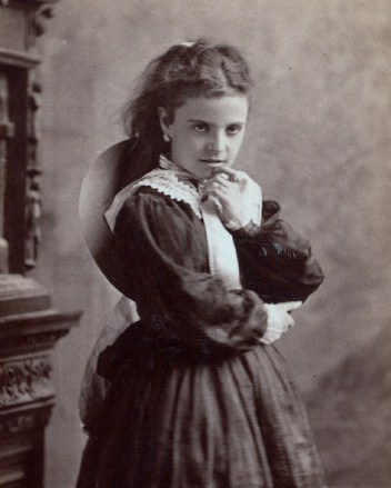 Bijou Heron child actor turned to her left